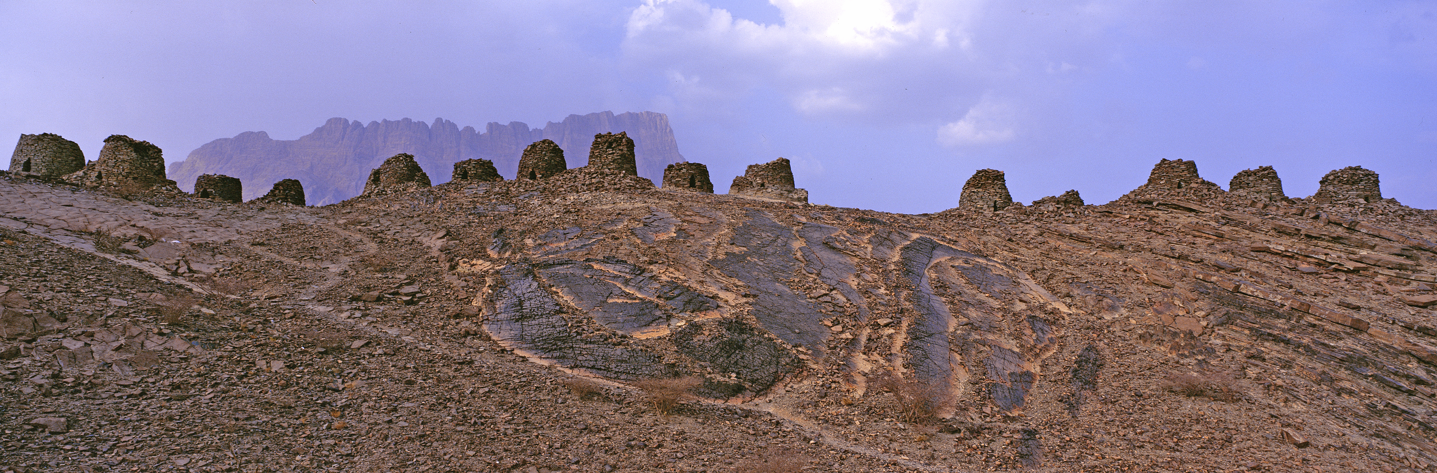 Camera: Fuji G617 Film: Kodak E100 VS The protohistoric site of Qubur Juhhal at Al Ayn lies near a palm grove in the interior of the Sultanate of Oman. Together with the neighbouring sites, it forms the most complete collection of settlements and necropolises from the 3rd millennium B.C. in the world. The 21 tombs, aligned on a rocky crest that stands out in the superb mountainous landscape of Jebel Misht to the north, are in a remarkable state of preservation. They have not been excavated and constitute an obviously interesting archaeological reserve.